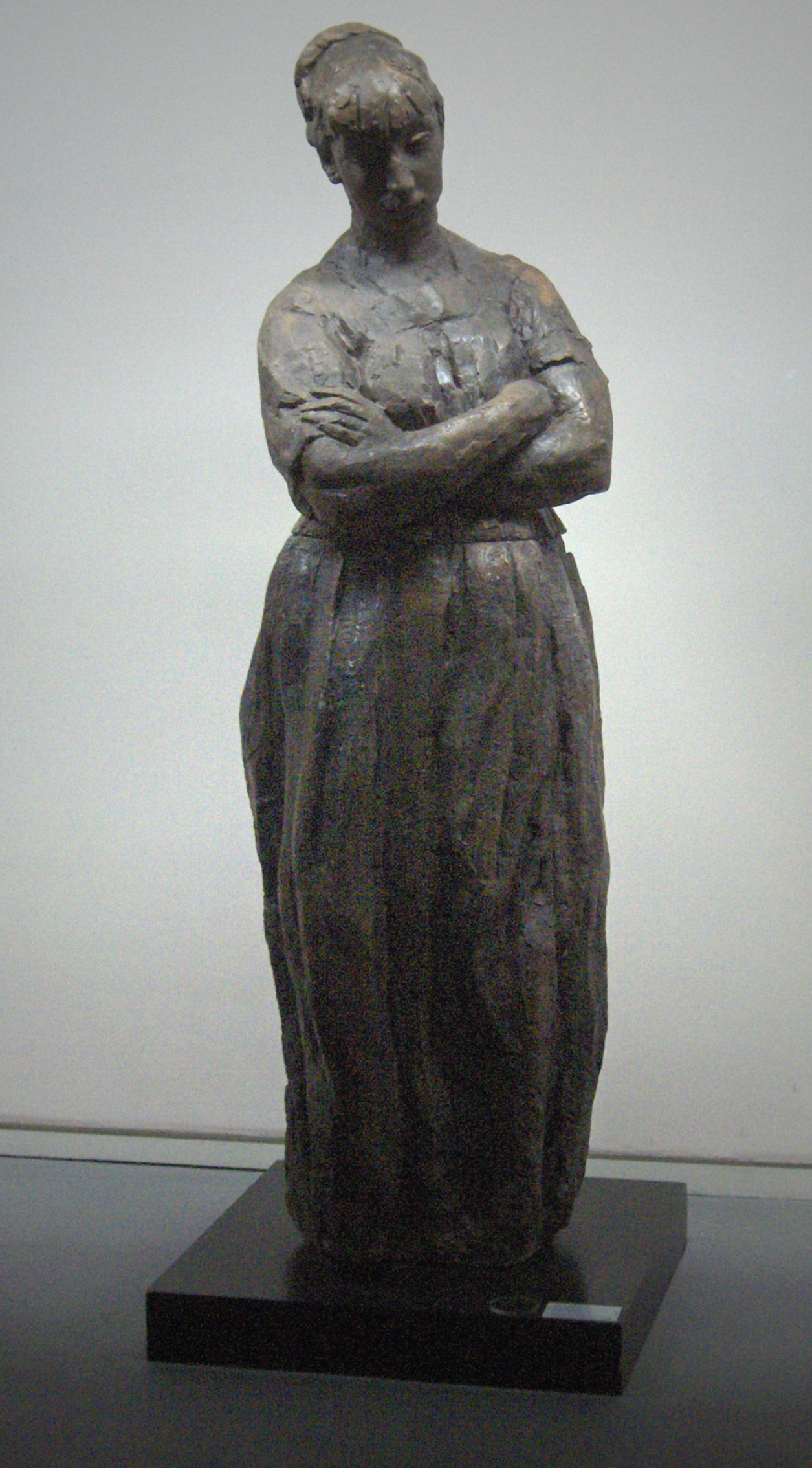 "Domestic worry" (1913-1914) statue in plaster by Rik Wouters (1882-1916) Royal Museums of Fine Arts, Brussels, Belgium